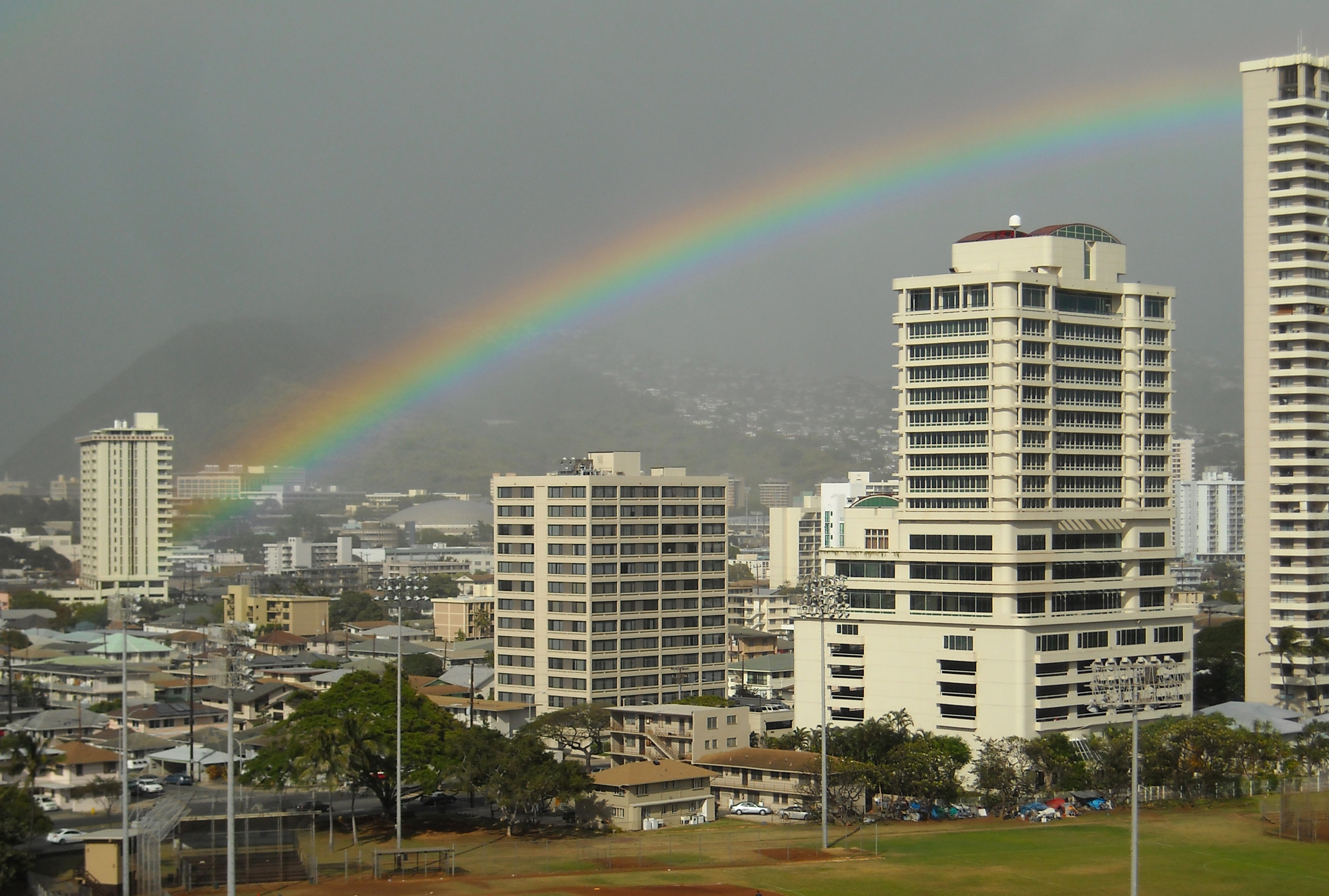 Rainbow over Moiliili/McCully